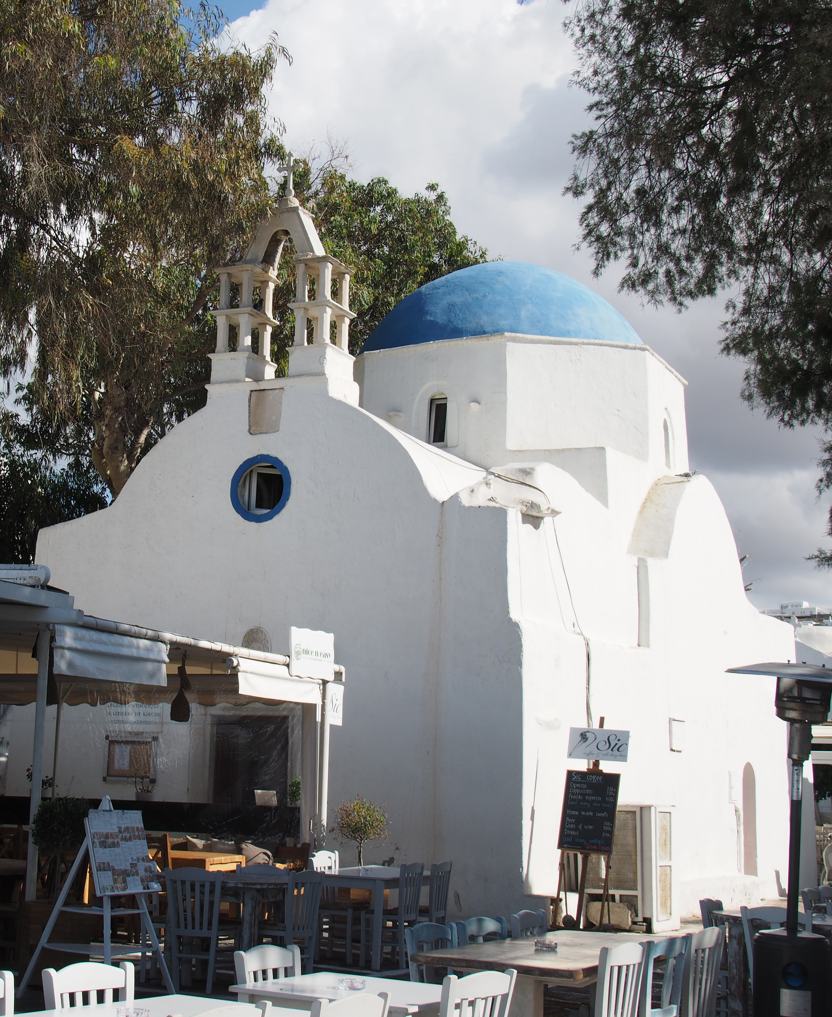 Catholic Church Virgin of St. Rosary, Mykonos, Greece